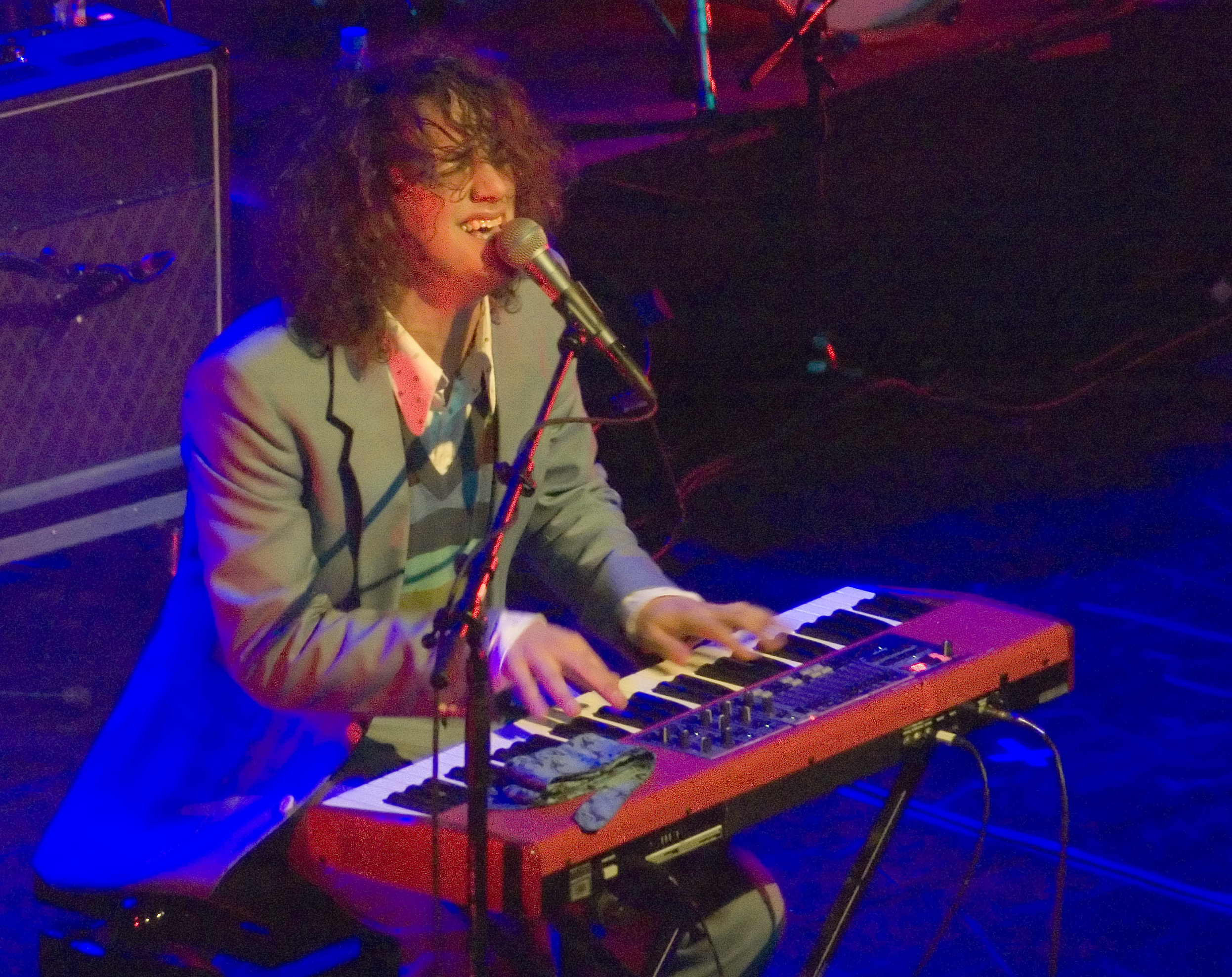 Salem Al Fakir live at Rival (Stockholm, Sweden).